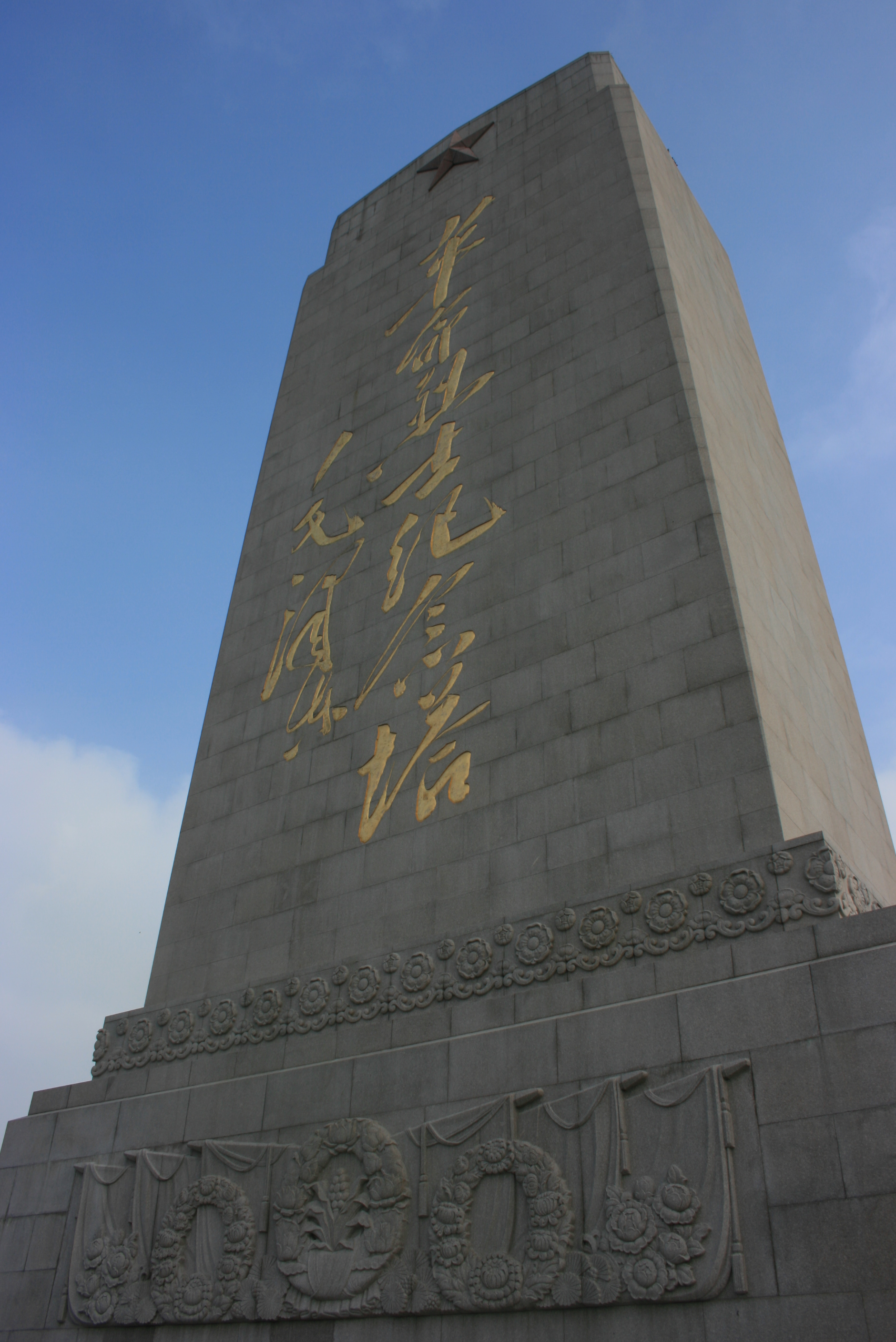 Photograph of the monument on Hero Hill, City of Jinan, Shandong Province, China. The inscription reads (top to bottom, left to right): "Revolutionary Martyrs' Memorial Tower - Mao Zedong"